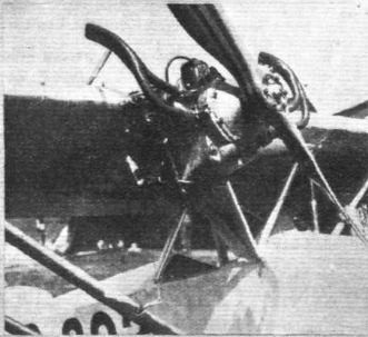 Engine istallation on the Daimler L21 in 1925